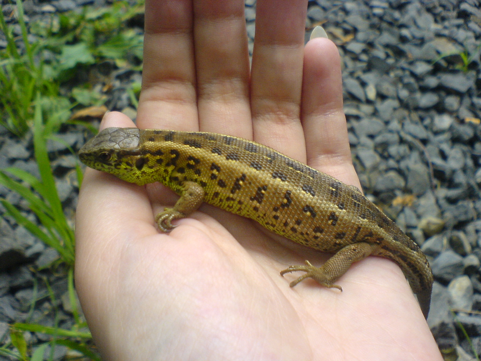 Sand lizard (Lacerta agilis) in Marosillye, Hunyad county, Transylvania.